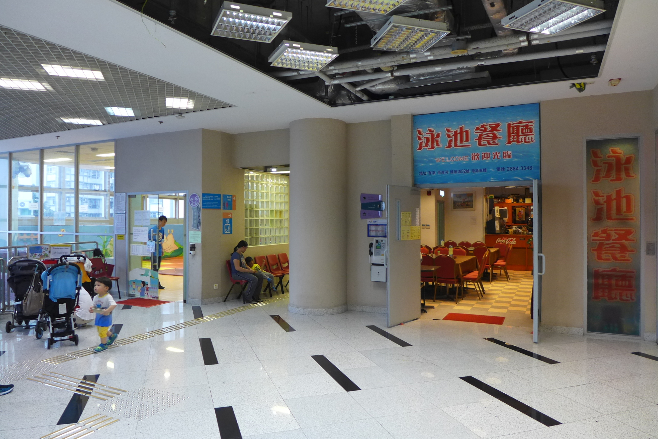 Island East Sports Centre